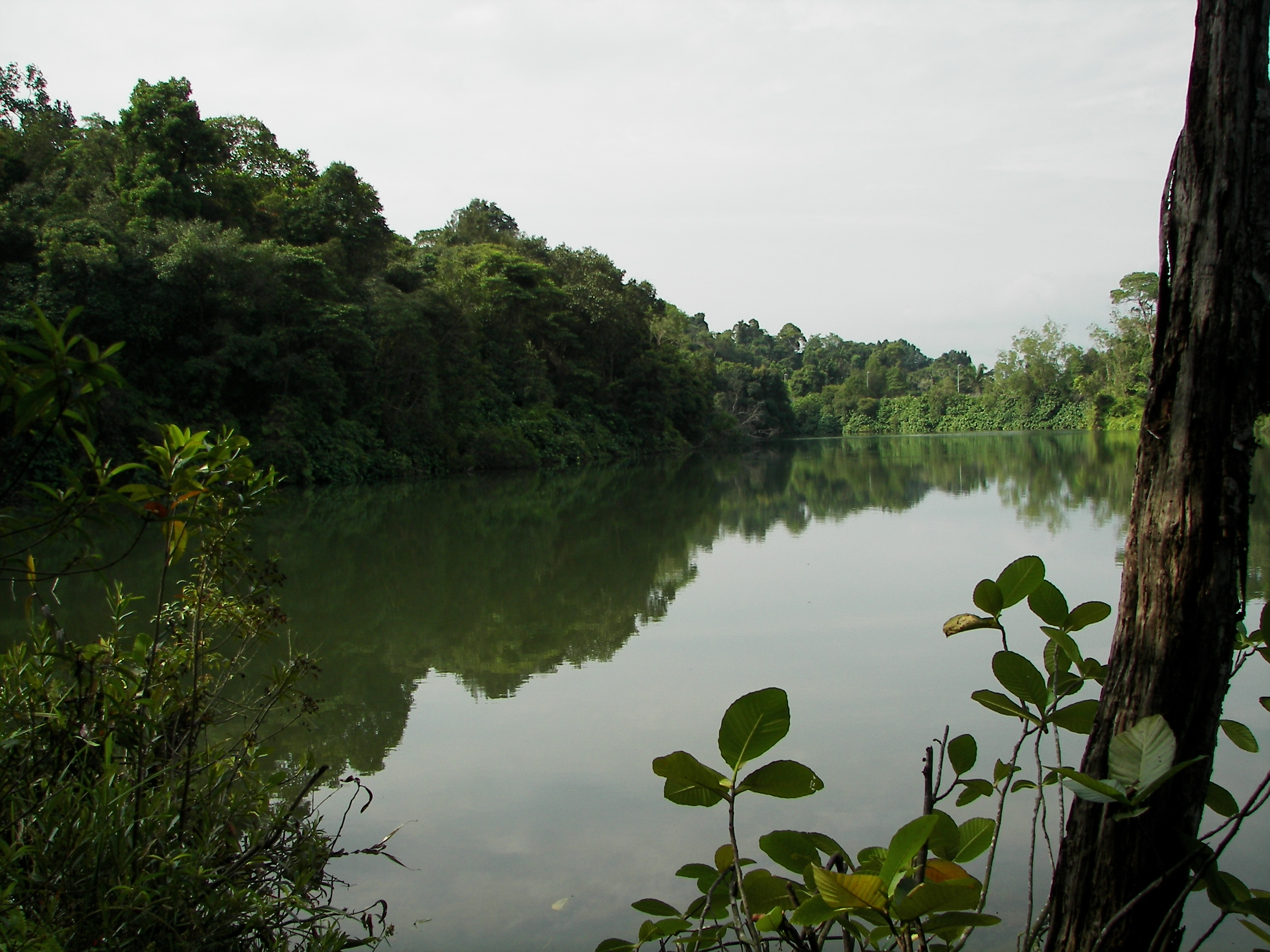 A view of the jungle at Upper Peirce Reservoir in Singapore near the Bukit Timah Expressway.